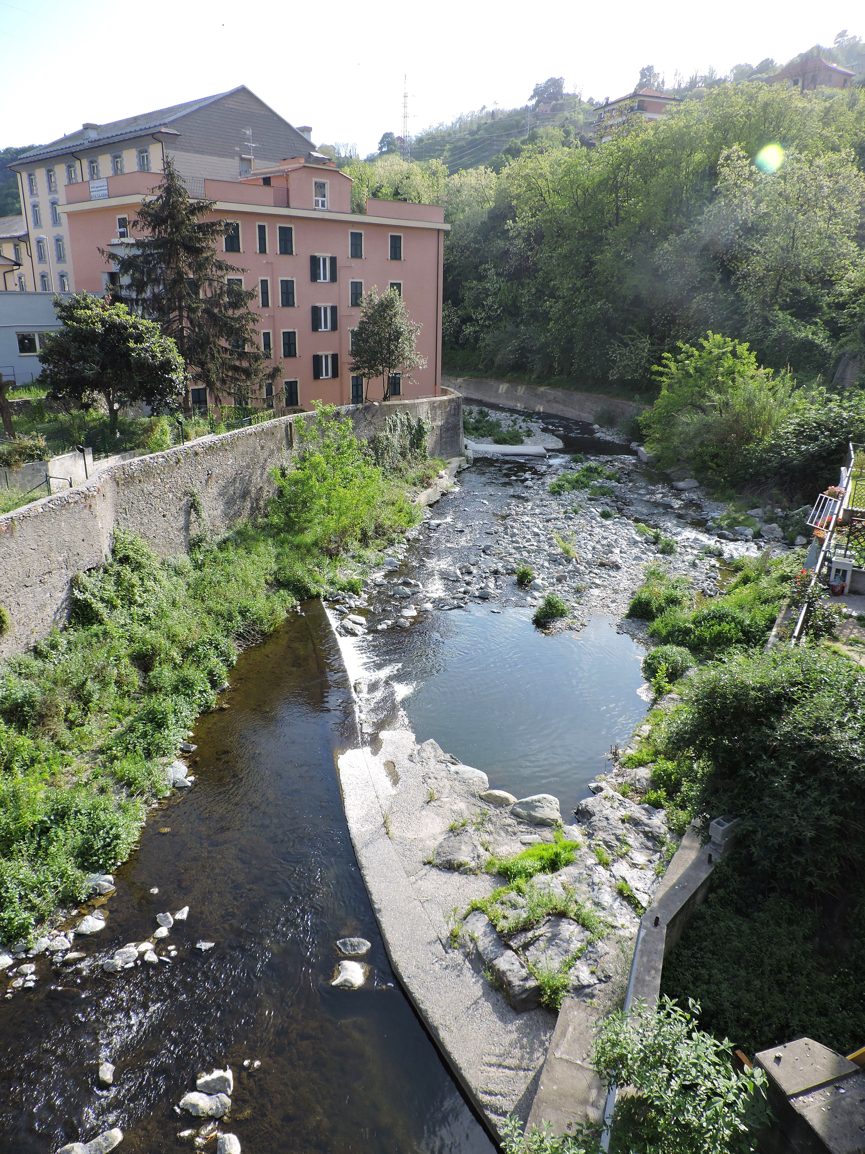 Torrente Acquasanta in Mele (GE, Italy): a weir close to it confluence with the Gorsexio